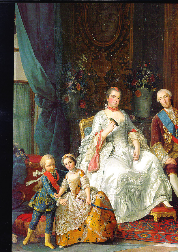 Philip of Parma and his wife Louise Élisabeth de France with their younger children Ferdinand, the later Ferdinand I of Parma and Maria Luisa, (later Queen of Spain), Parma, Galleria Nazionale; The girl is keeping her brother's miniature sword away from him...